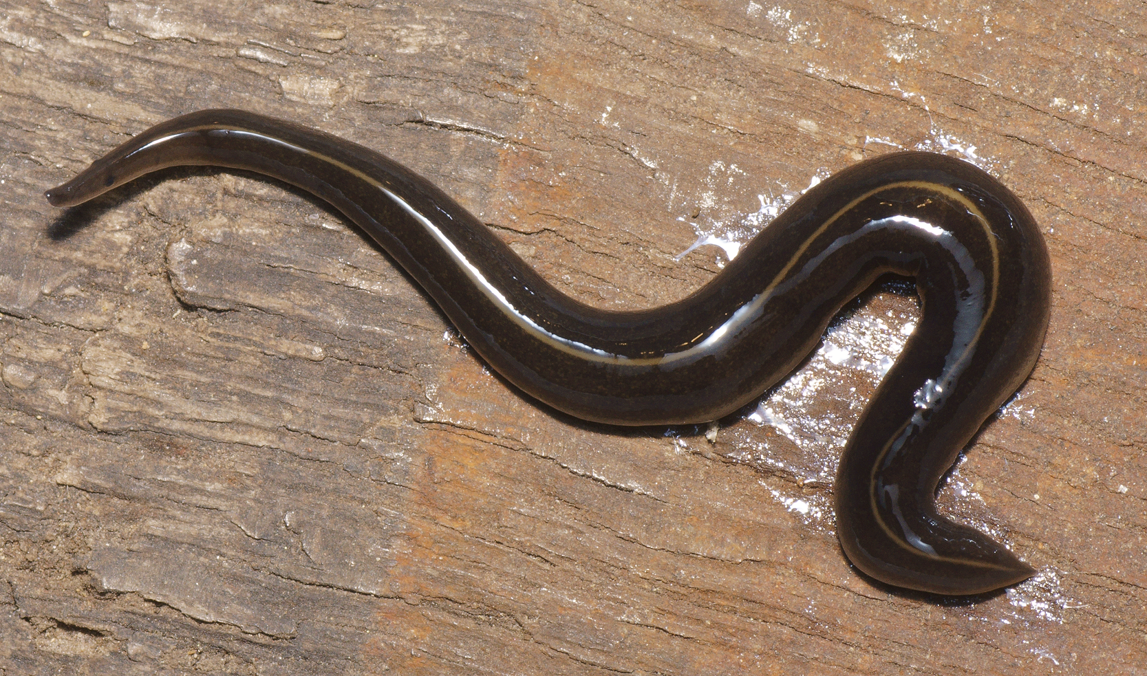 Platydemus manokwari de Beauchamp, 1963. Specimen collected in a hothouse, Caen, France. Dorsal view: note median longitudinal line.